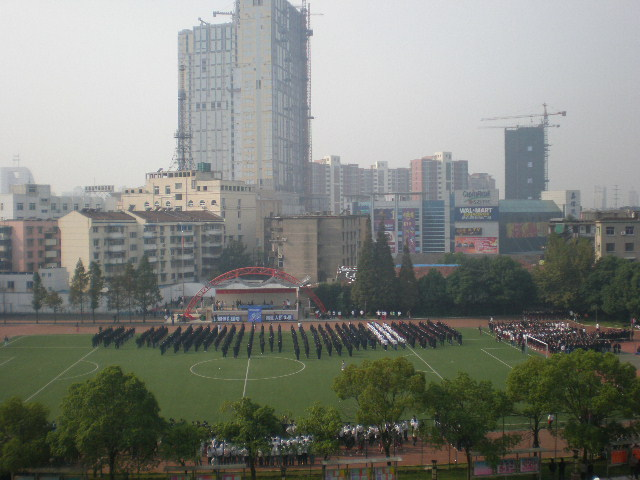 The East Playground (main playground) of The High School Affiliated to Anhui Normal University. Note that the photo was token during the school sports meeting